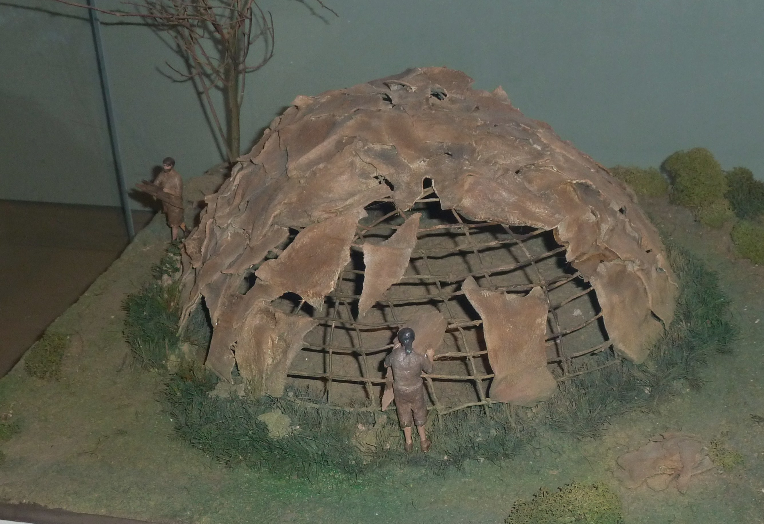 Ulster Museum Model (hypothetical but evidence based) of a Mesolithic hut at Mount Sandel, Co. Londonderry, Ireland. The remains of six round huts were found at Mount Sandel from about six meters in diameter with a central hearth. The seventh House is small, only about three feet in diameter and has an outer stove. The huts were made a frame of bent, set in post holes in the bottom branches, which were probably covered with skins.